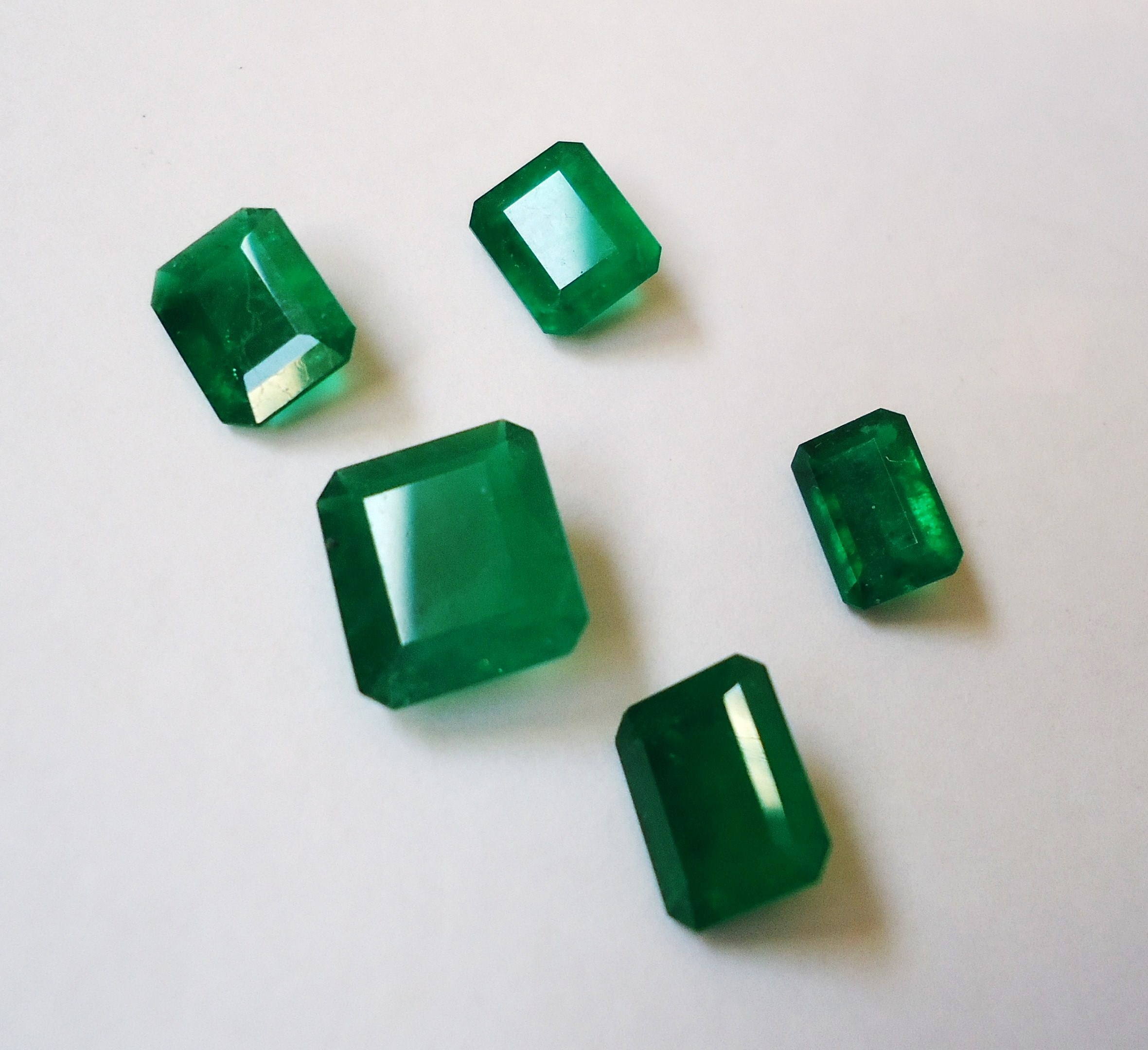 Colombian emeralds faceted in emerald cut